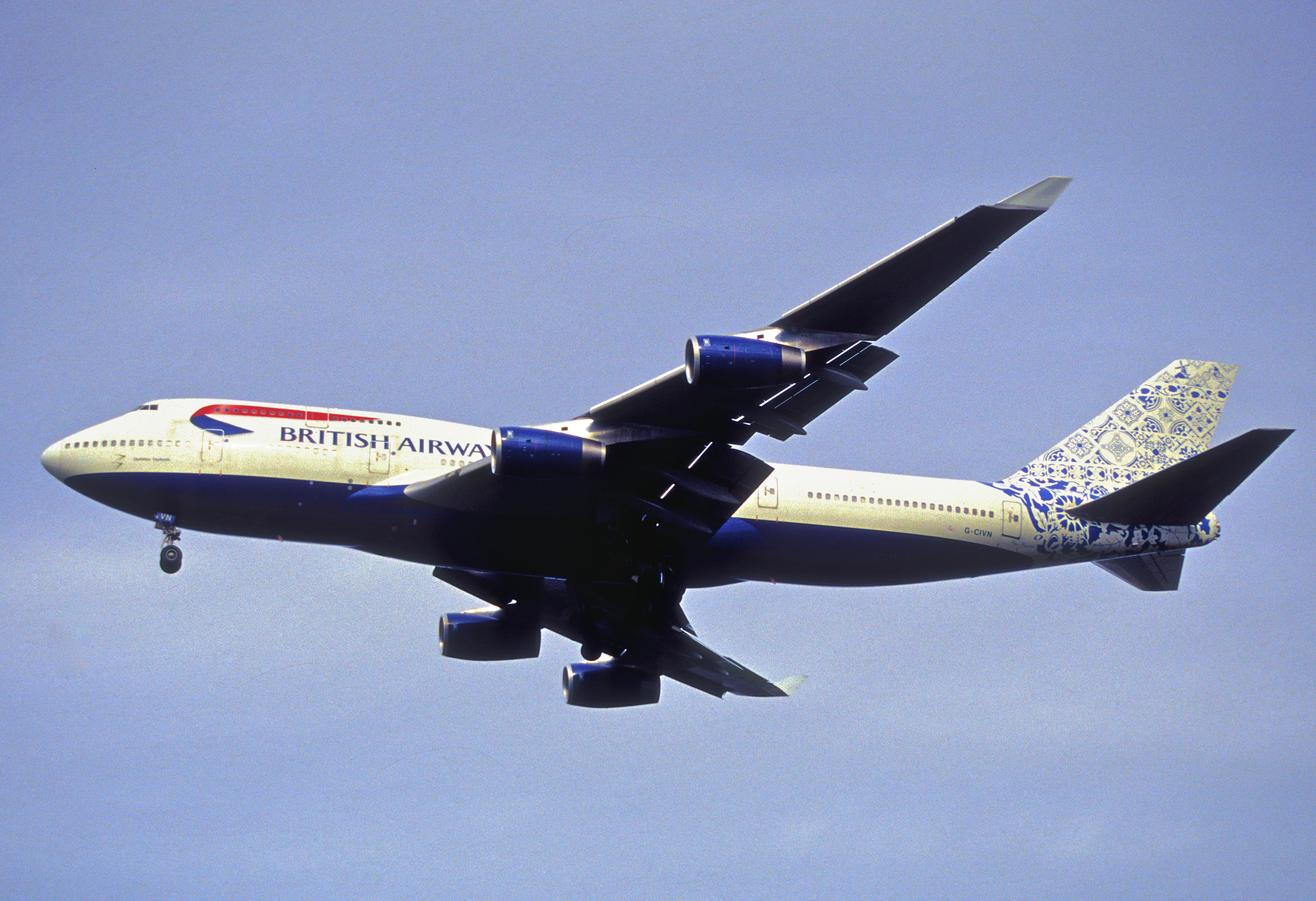 This Boeing 747-436 took its first flight on September 18, 1997 and was delivered to BA on September 29, 1997... (c/n 28848/ 1129) The Jumbo wore the 'Delfblue Daybreak-colours until April 2004...